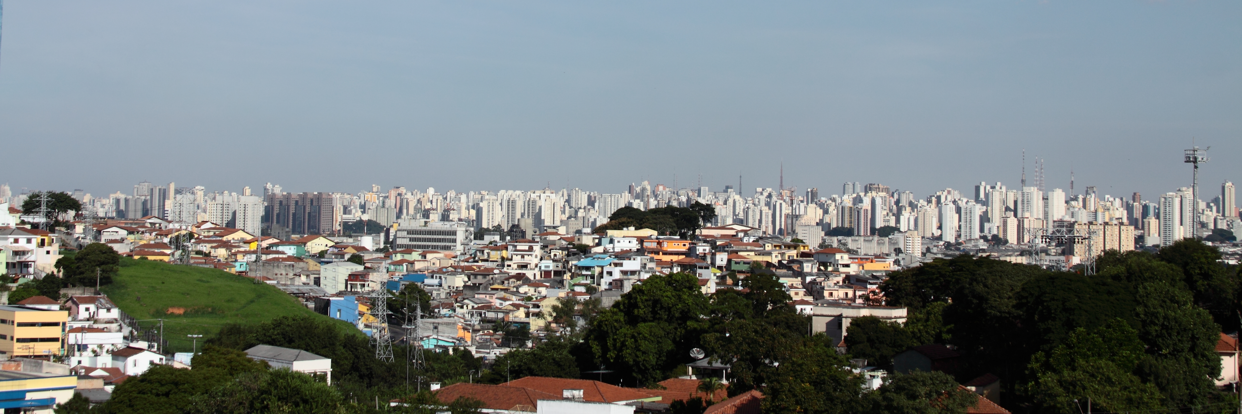 Panoramic of Pirituba district and São Paulo city Downtown, seen from the Piqueri Neighbourhood